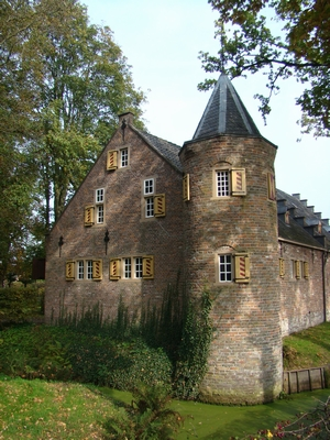 Sypesteyn, castle gatebuilding